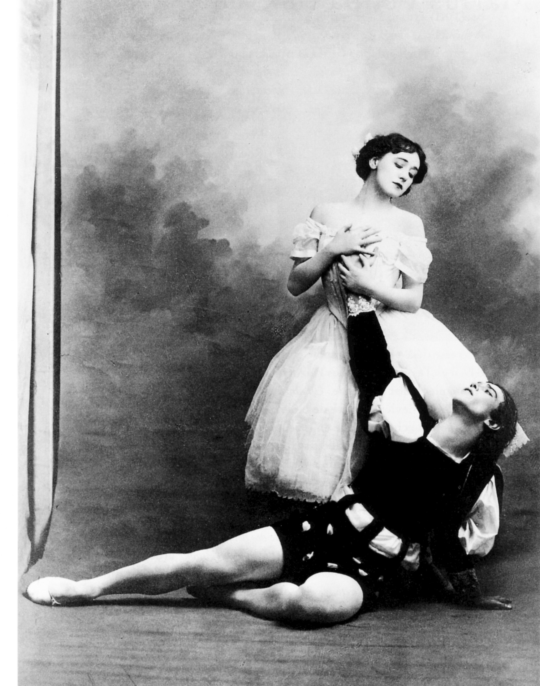 Tamara Karsavina and Vaslav Nijinsky as Giselle and Albrecht in the 1910 Ballets Russes production of Giselle.